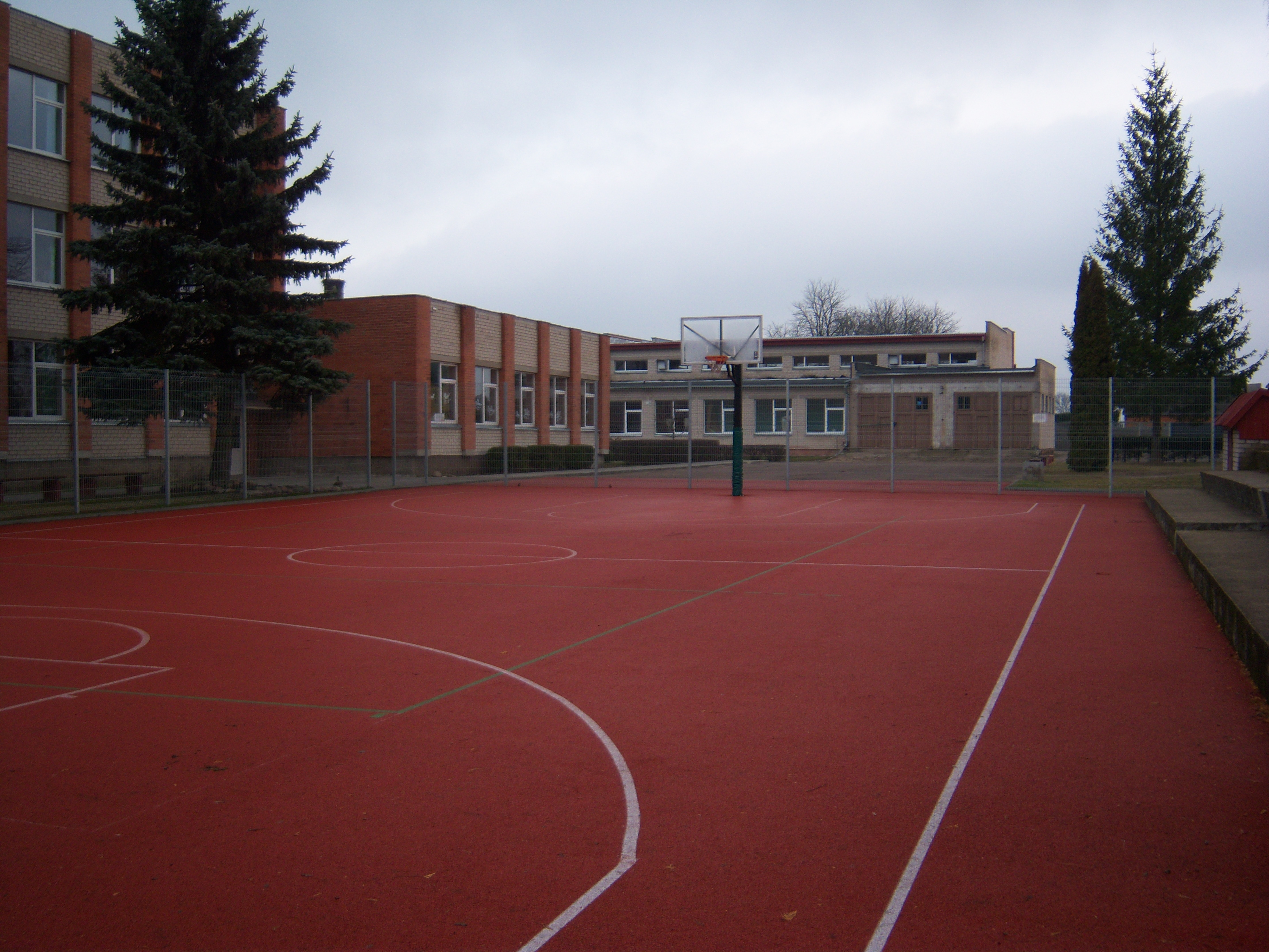 Gymnasium in Viduklė, Lithuania